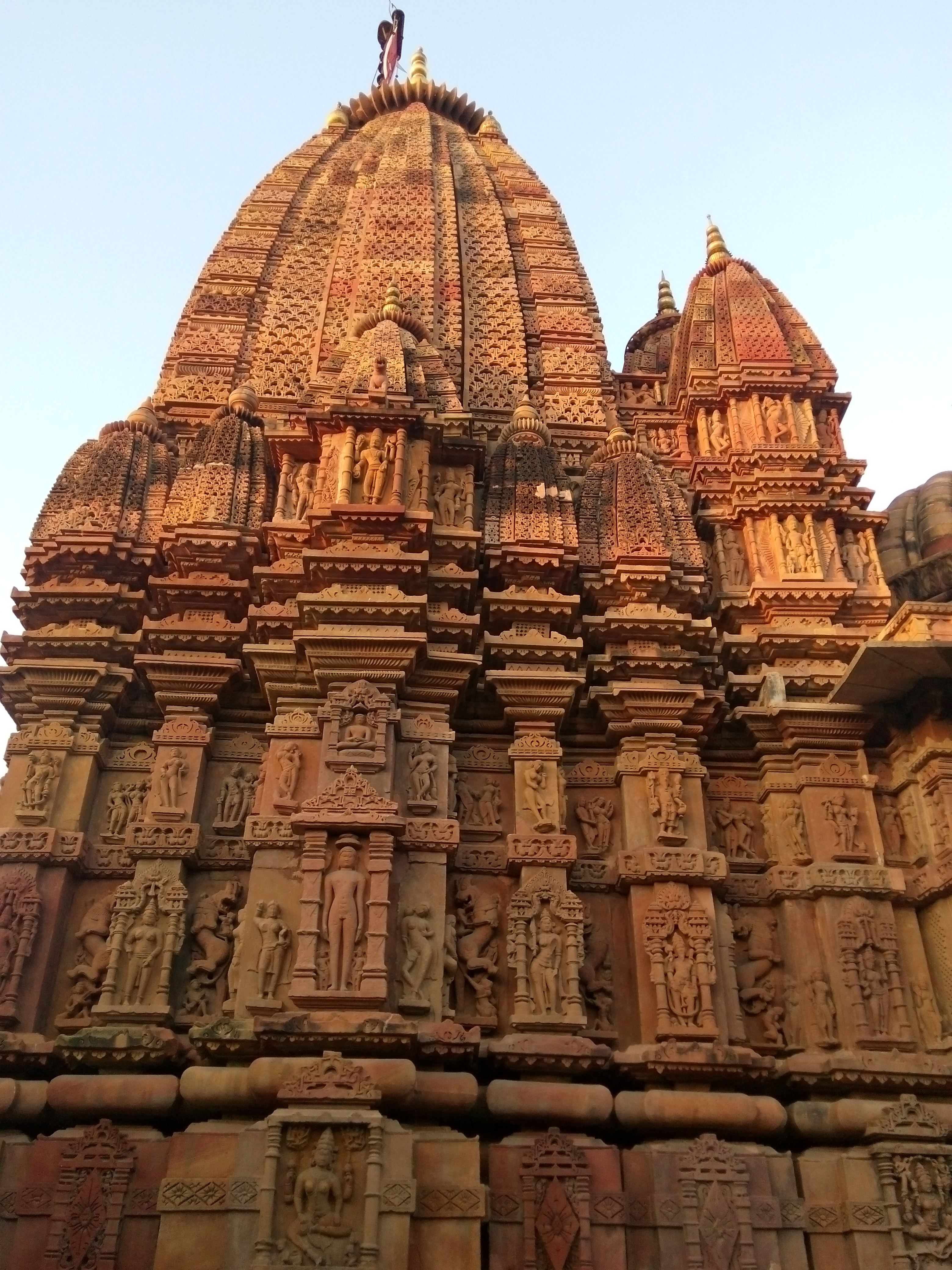 the city's name symbolize city of temples. it is exquisitely carved temple